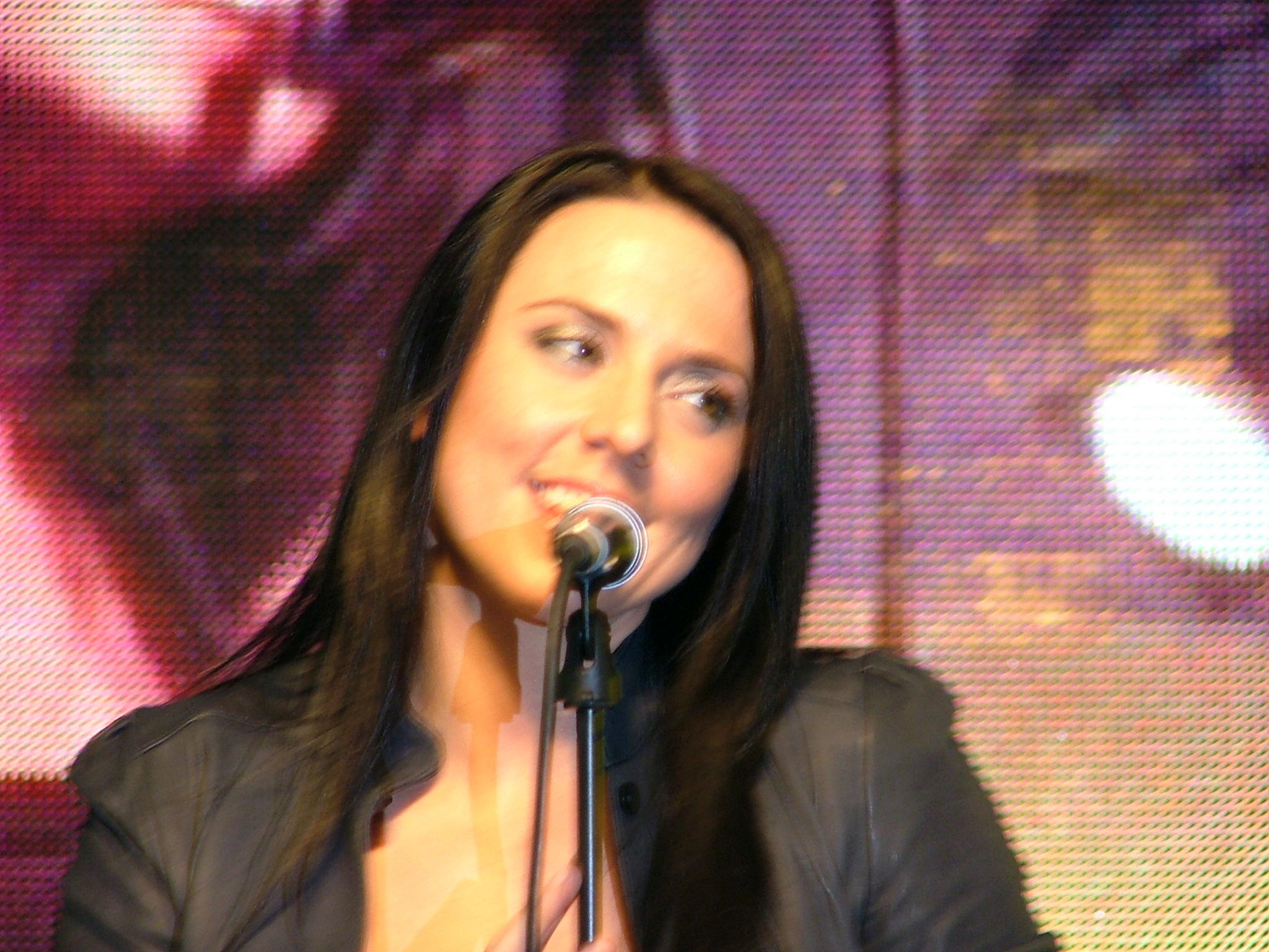 Melanie Chisholm in November 2006